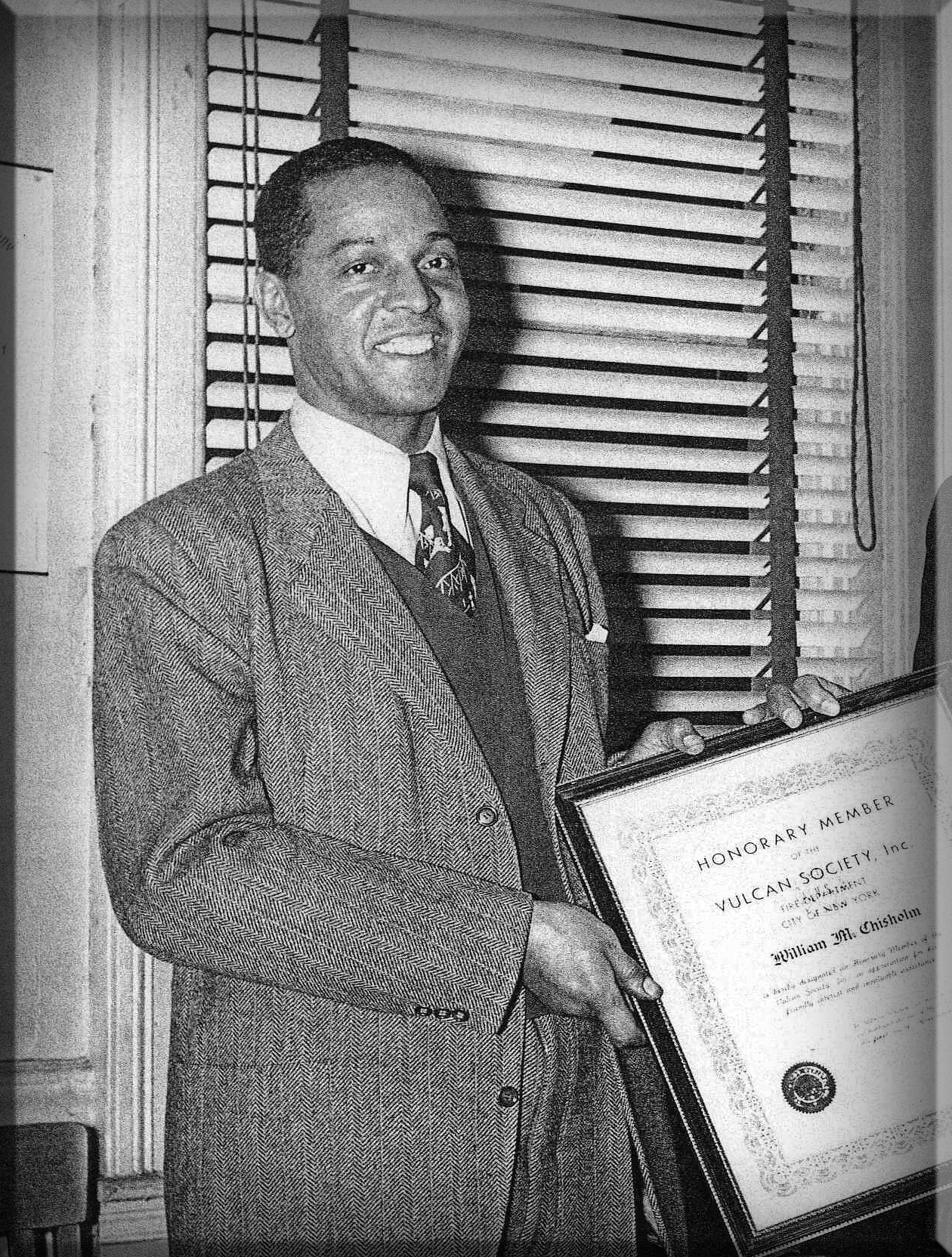 The Future Fire Marshal and FDNY Comissioner